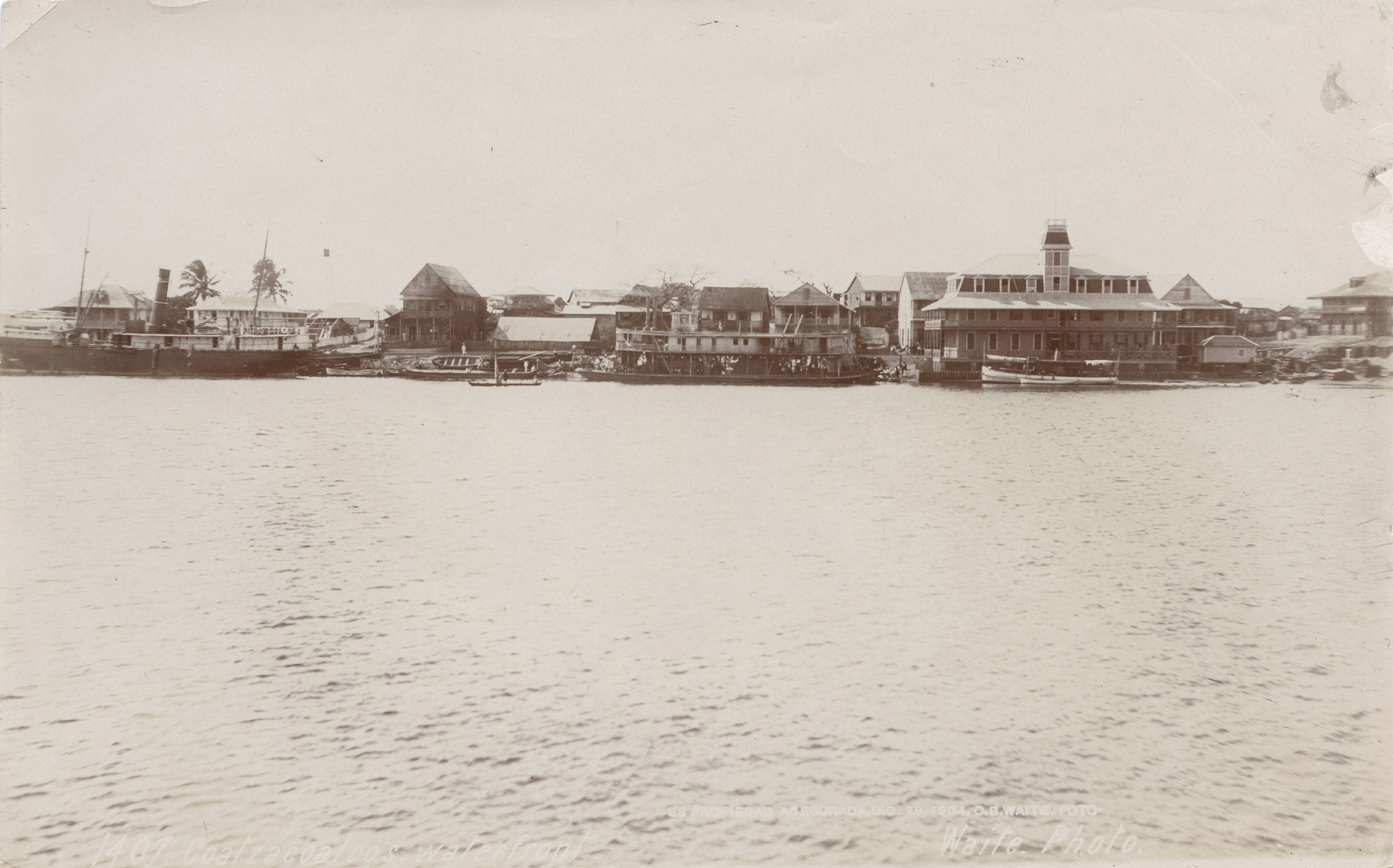 Title: Coatzacoalcos waterfront Creator: Waite, C. B. (Charles Burlingame) (1861-1929) Date: ca. 1904 Part Of: Lawrence T. Jones III Texas photography collection Physical Description: 1 photographic print: gelatin silver; 20.2 x 12.6 cm. File: ag1983_0281_1407_coatzacola_opt.jpg Rights: Please cite Southern Methodist University, Central University Libraries, DeGolyer Library when using this image file. A high-quality version of this file may be obtained for a fee by contacting . For more information, see: View Mexico: Photographs, Manuscripts, and Imprints